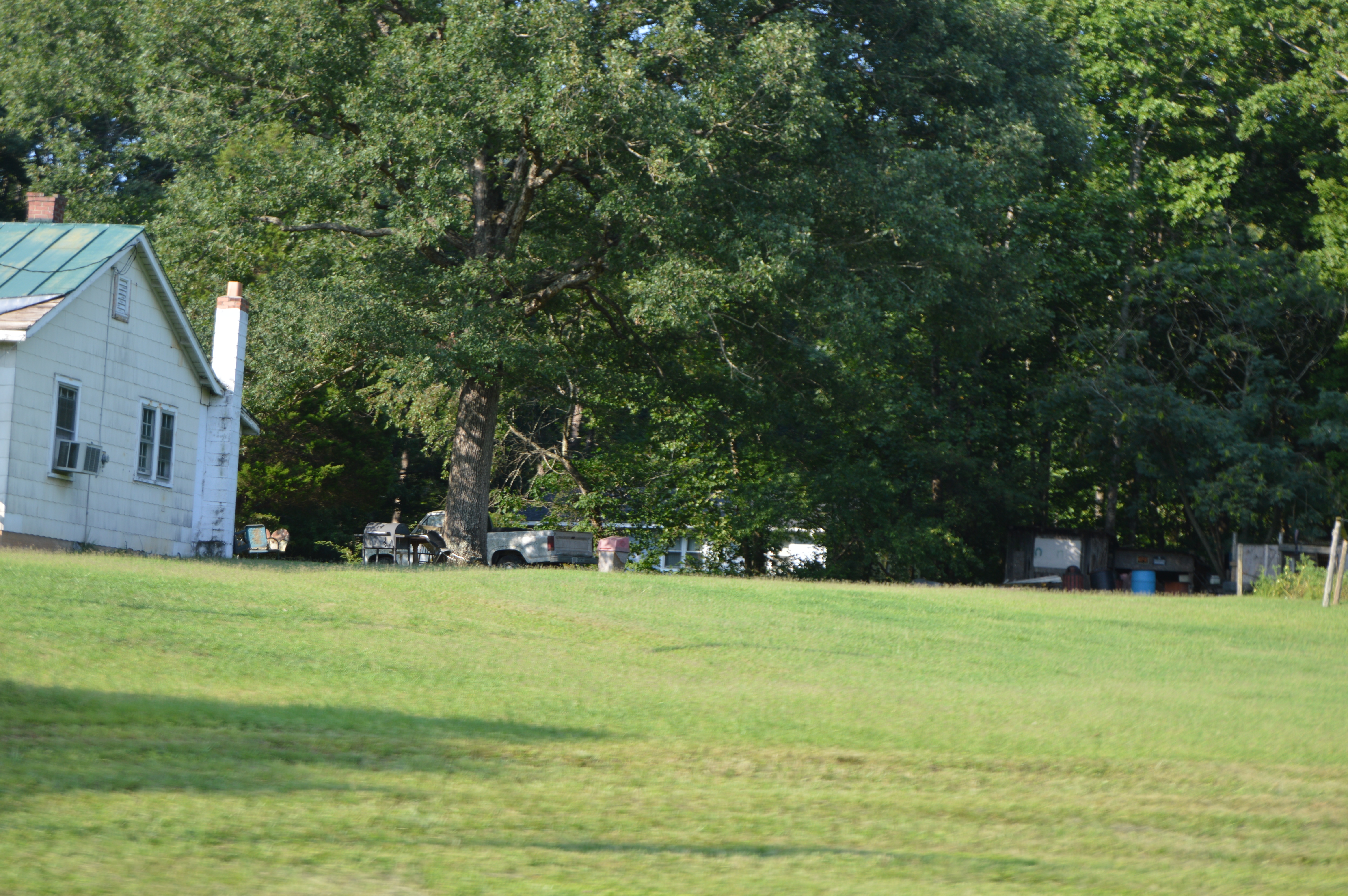 Distant, through-the-trees view of the Shady Grove School, located off U.S. Route 250 southeast of Gum Spring in Louisa County, Virginia, United States. Built in 1925, it is listed on the National Register of Historic Places.